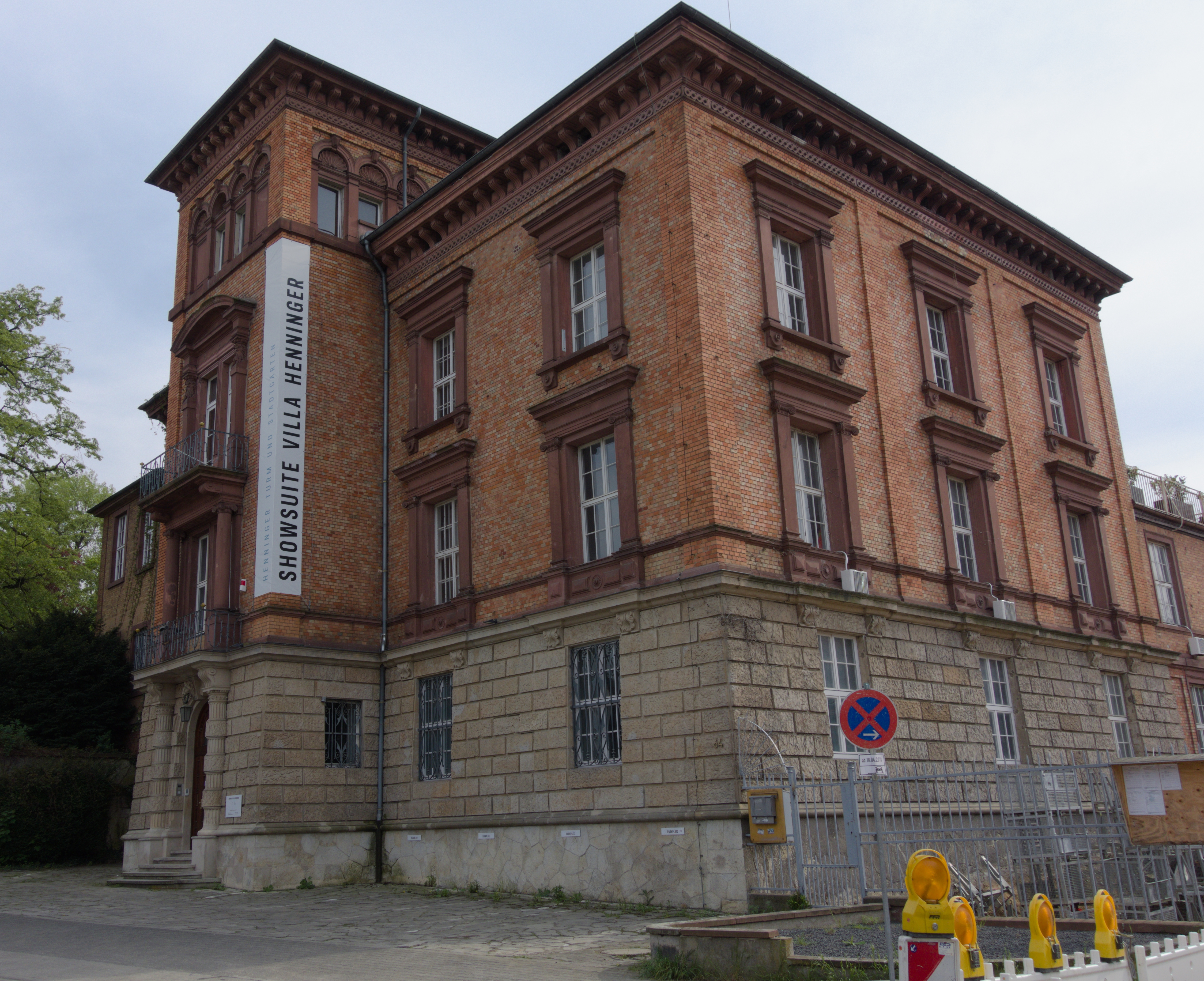 Villa Henninger, im April 2018